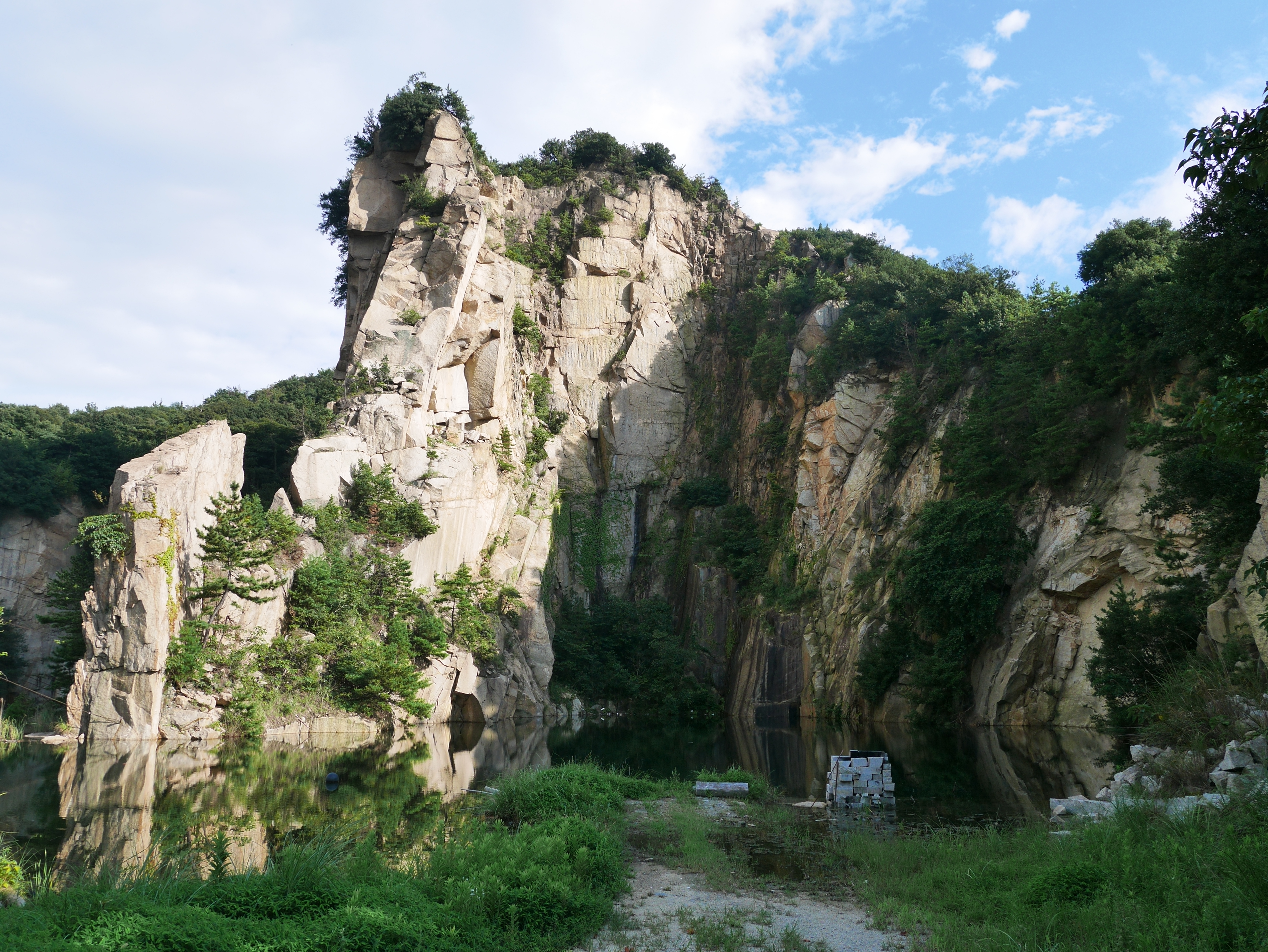 Kitagi stone Quarry lakes spot3. Past, have just crowded with quarrying Kitagi stone. It had taken out the Kitagi stone dug deep, but now, we have created a wonderful landscape rainwater accumulate there.